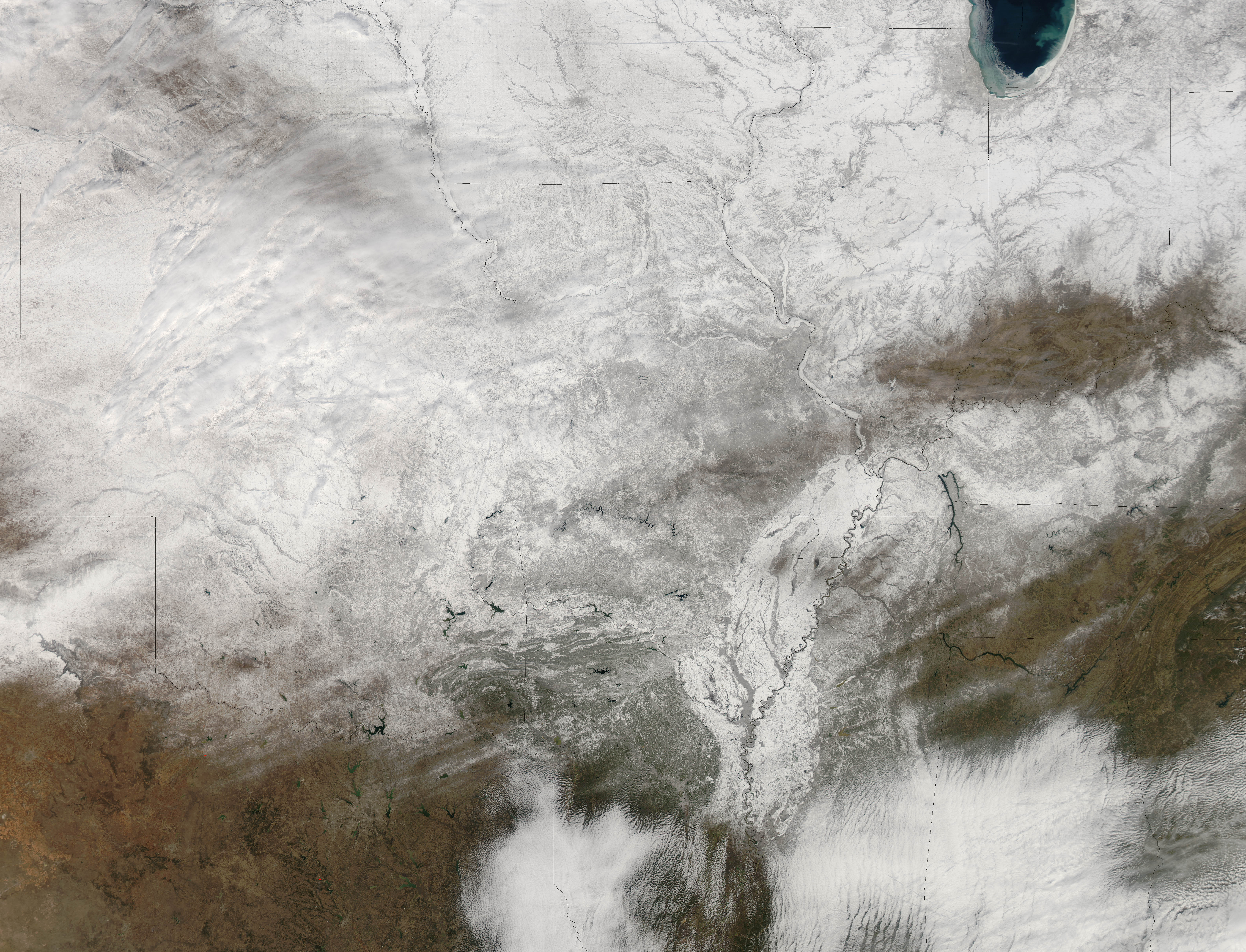 Clear view of the U.S. mid-section at 1:25 Central Standard Time. Nearly all of the white in this image is snow and ice, except for a bit of clouds in the lower right (south-east) corner. The outlines of the Ouachita and Ozark mountain ranges darken the snowy landscape, while river valleys such as the Mississippi appear brighter due to fewer trees. Gray-white areas are often developed, urban landscapes that have been coated by snow; some, however, are just rural areas that received less snow.